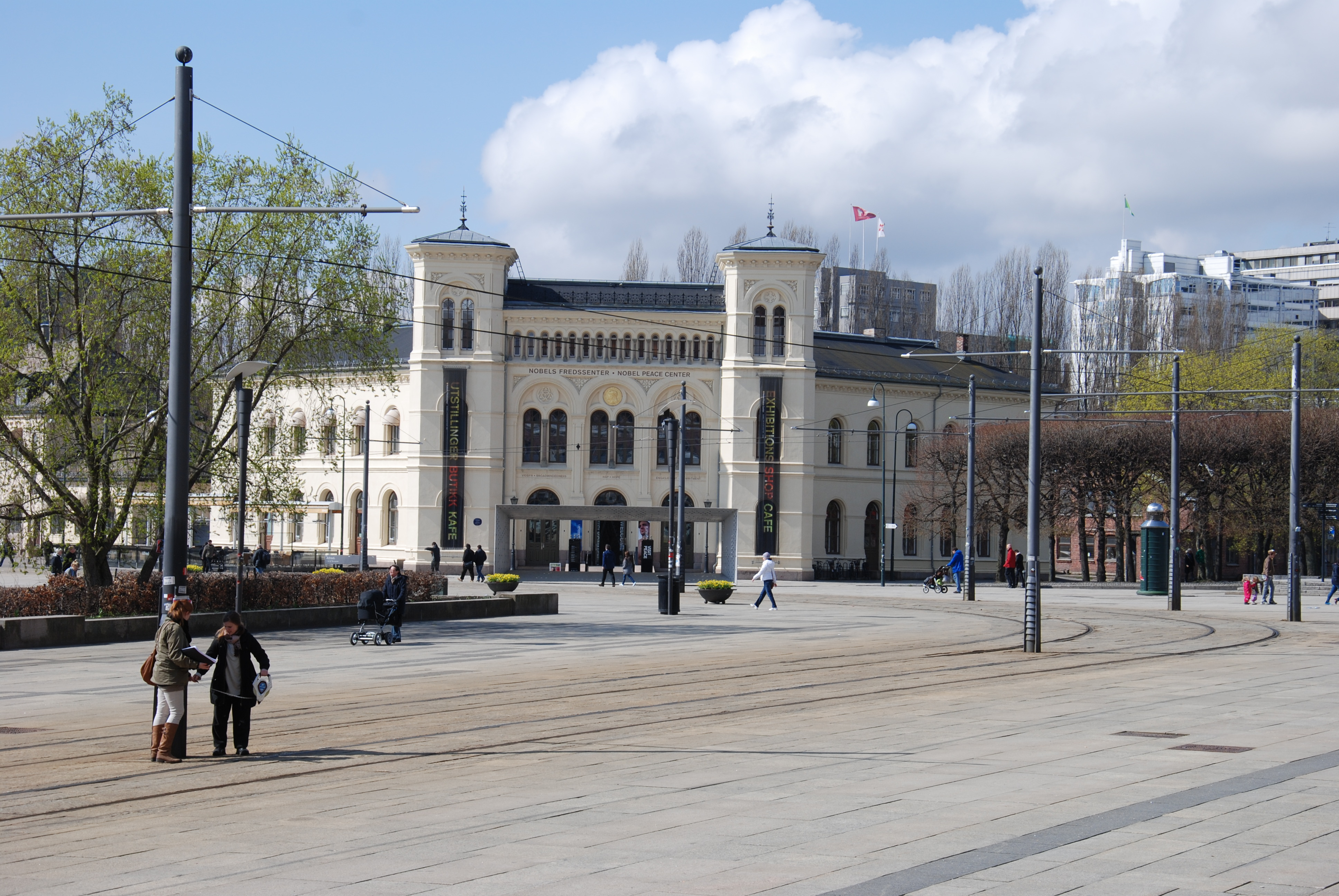 Vestbanestasjonen Oslo